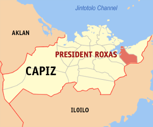 Map of Capiz showing the location of President Roxas